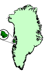 Location of Qeqertarsuaq/Disko Island, Greenland